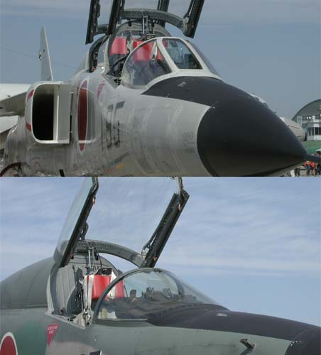 T-2 and F-1_Canopy displayed at JASDF Komaki AB